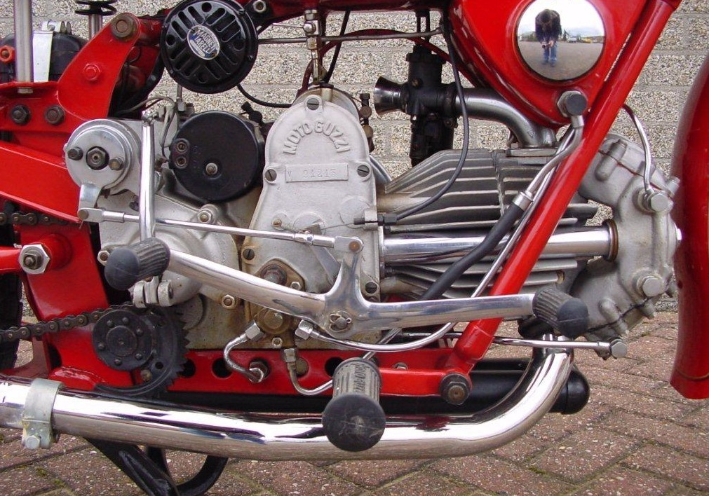 Moto Guzzi Astore 500 motorcycle engine from 1949